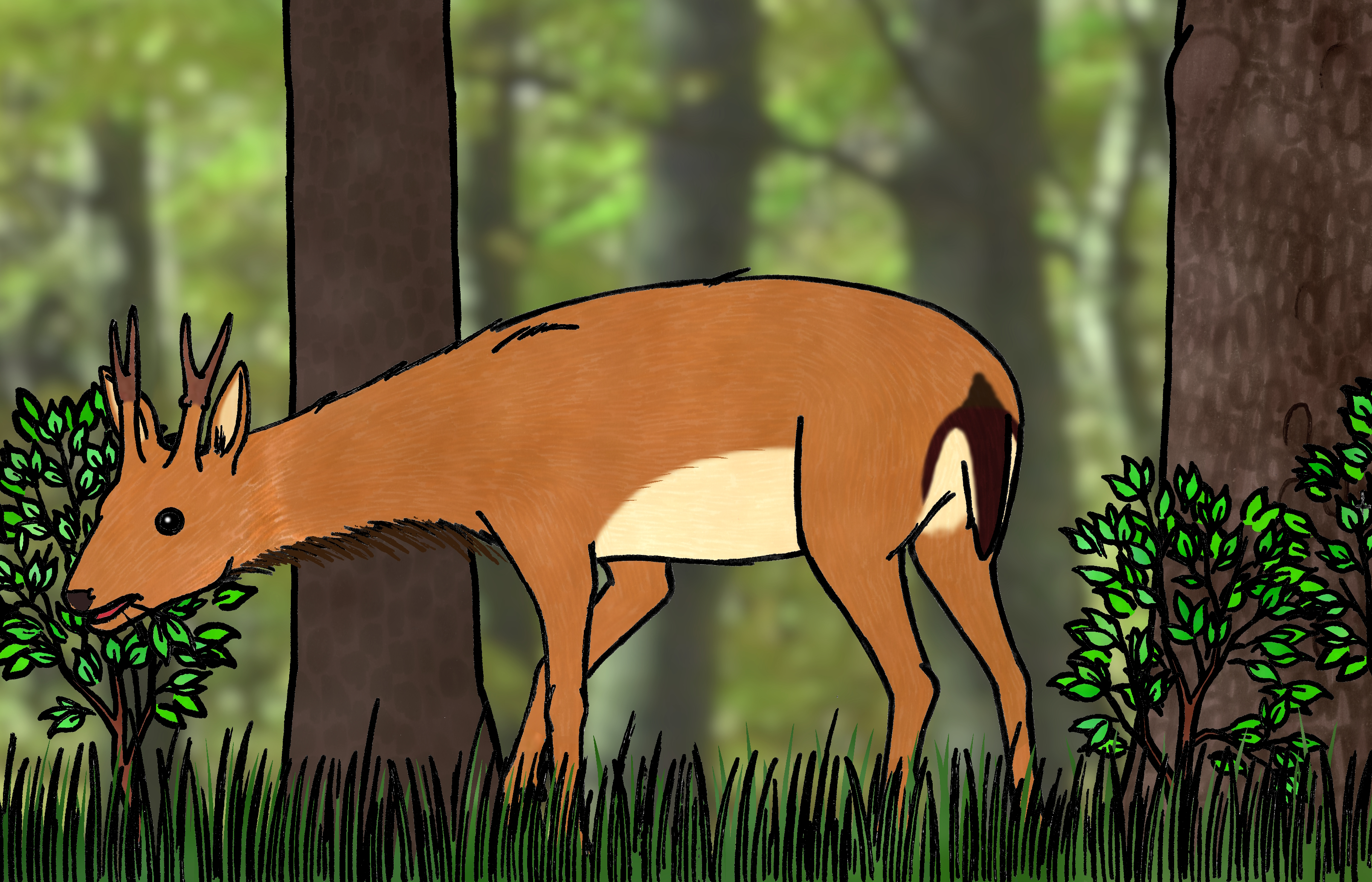 Restoration of the early Cervid Dicrocerus middle Miocene of Europe.